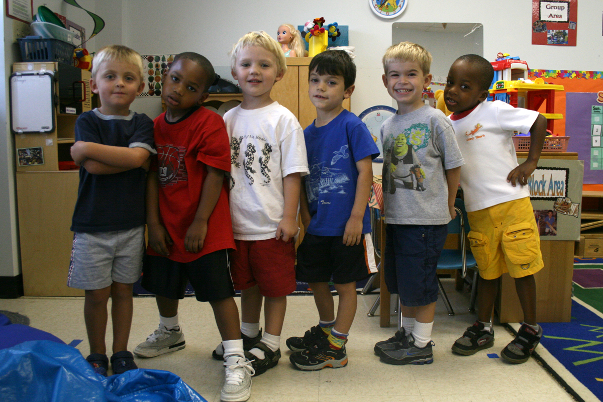 school friends